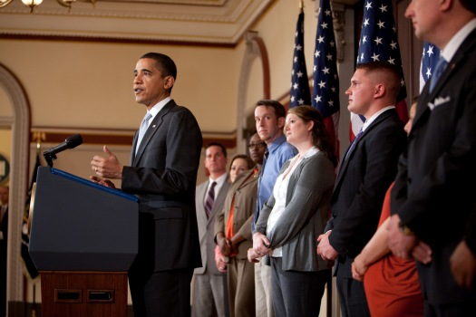 President Barack Obama is joined by taxpaying citizens as he gives remarks Wednesday, April 15, 2009 at the Eisenhower Executive Office Building in Washington, D.C., on the tax cut for 95 percent of American workers.